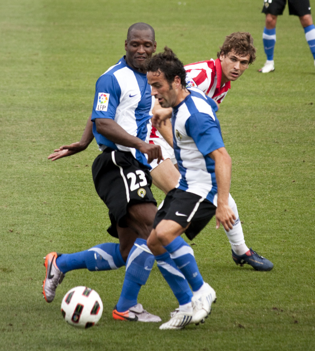 The Hércules player Paco Peña in the foreground while controlling the ball, with Noé Pamarot in the background wearing the number 23 back, before the eyes of Fernando Llorente Athletic Bilbao, and in the background wearing the number 21 David Cortés.